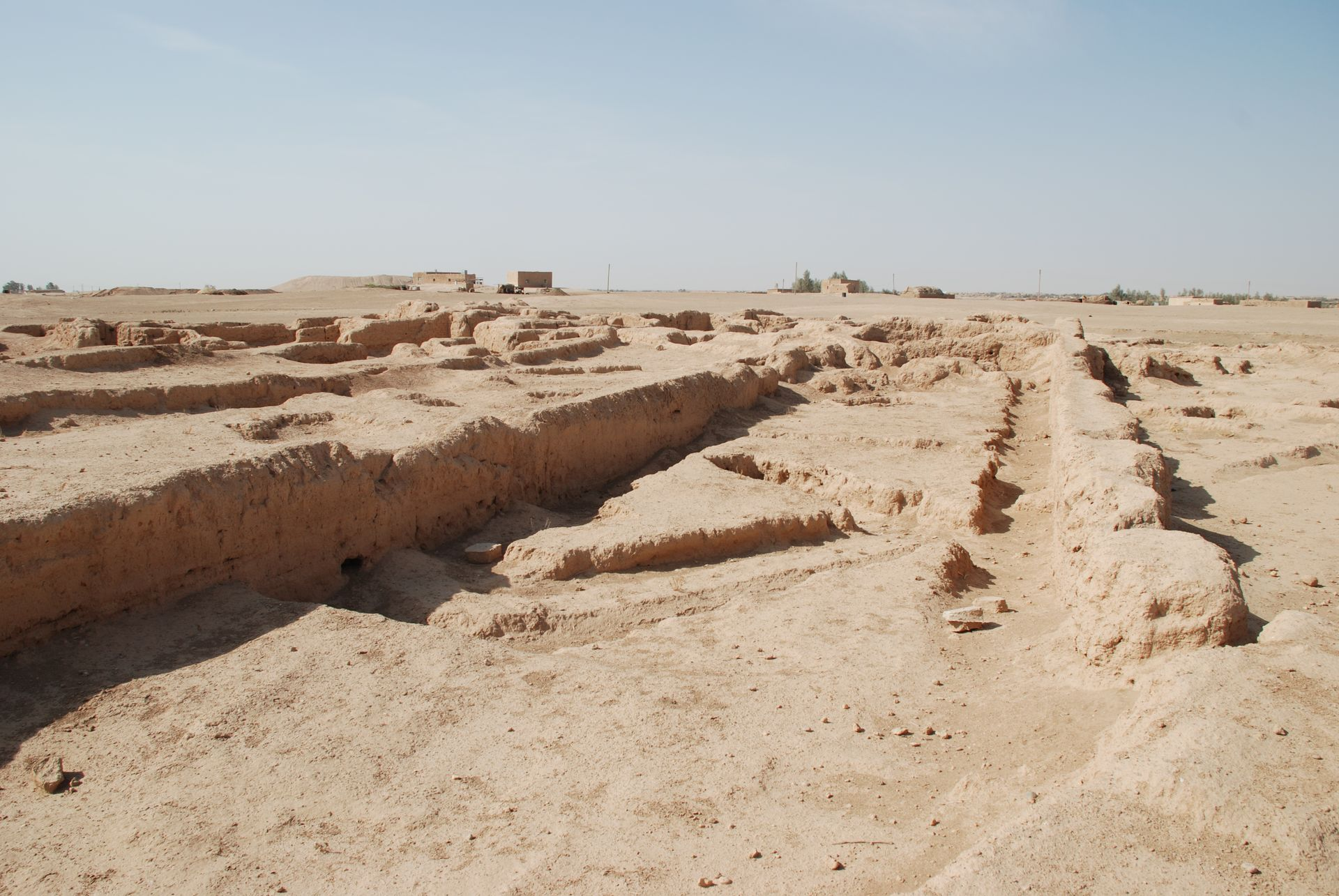 Tell Schech Hamad, Syria, Dur Katlimmu, neo-assyrian palatial residence in northeast